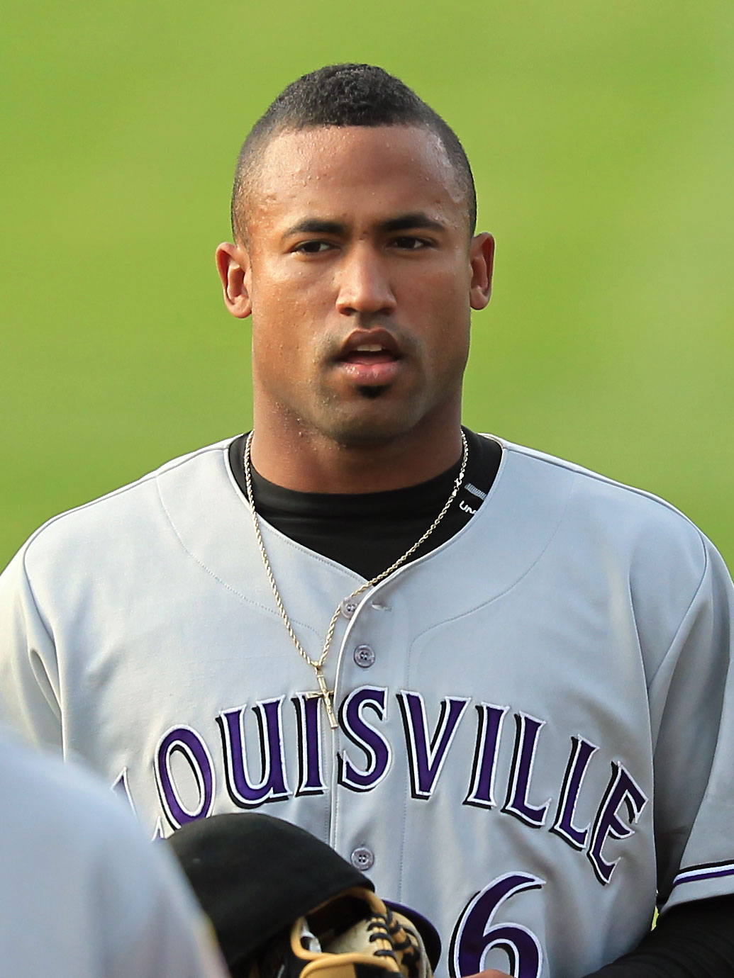 David Sappelt, Scranton, PA, June 10, 2011. 21:43, 28 August 2011 . . BubbaFan . . 1,035×1,380 (182 KB)